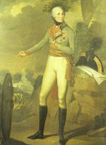 Hohenlohe